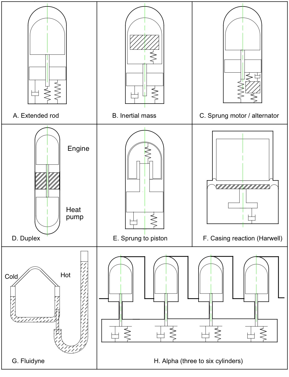 Various examples of free-piston Stirling machinery